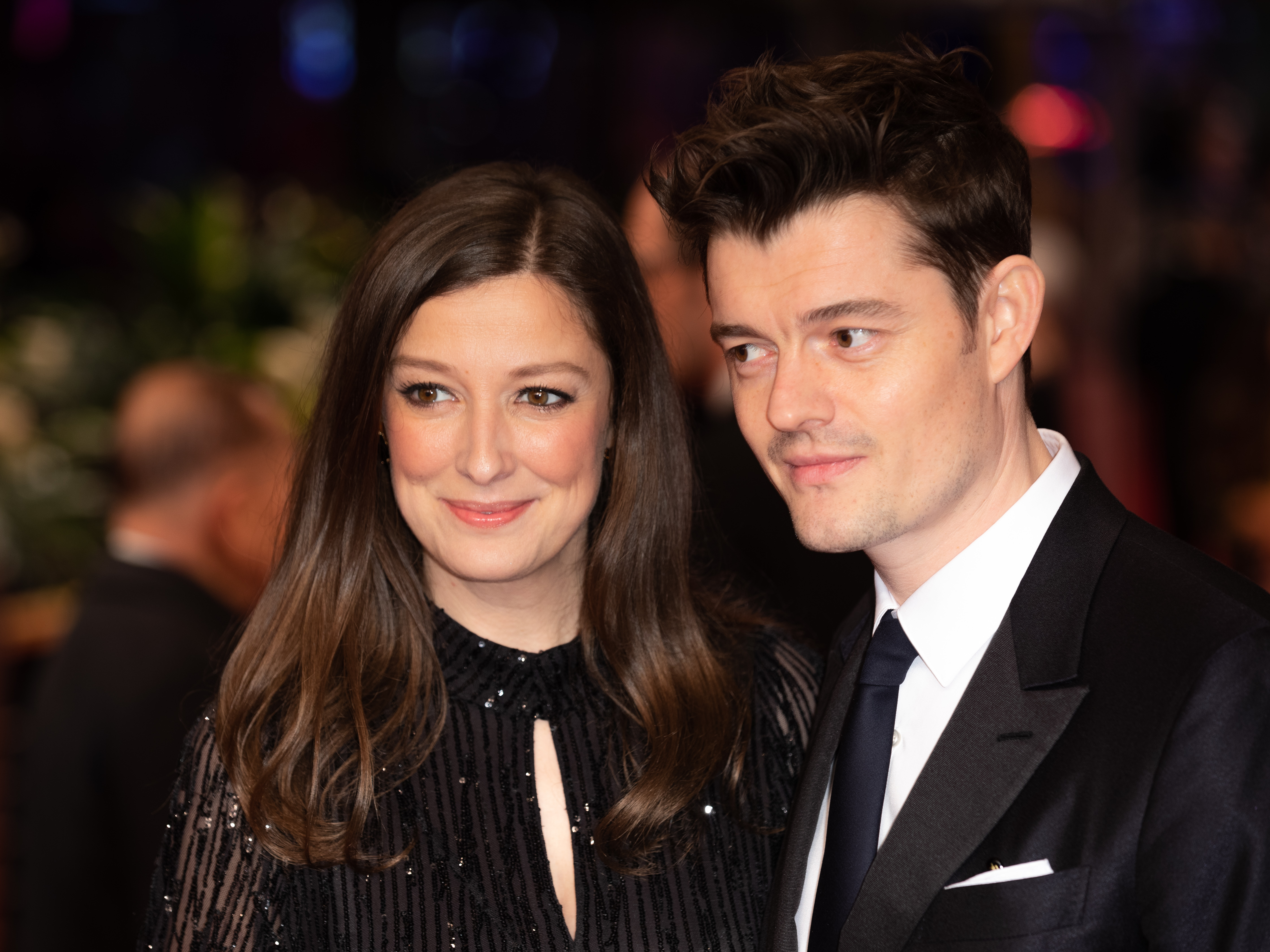 Alexandra Maria Lara and Sam Riley at Berlinale 2020